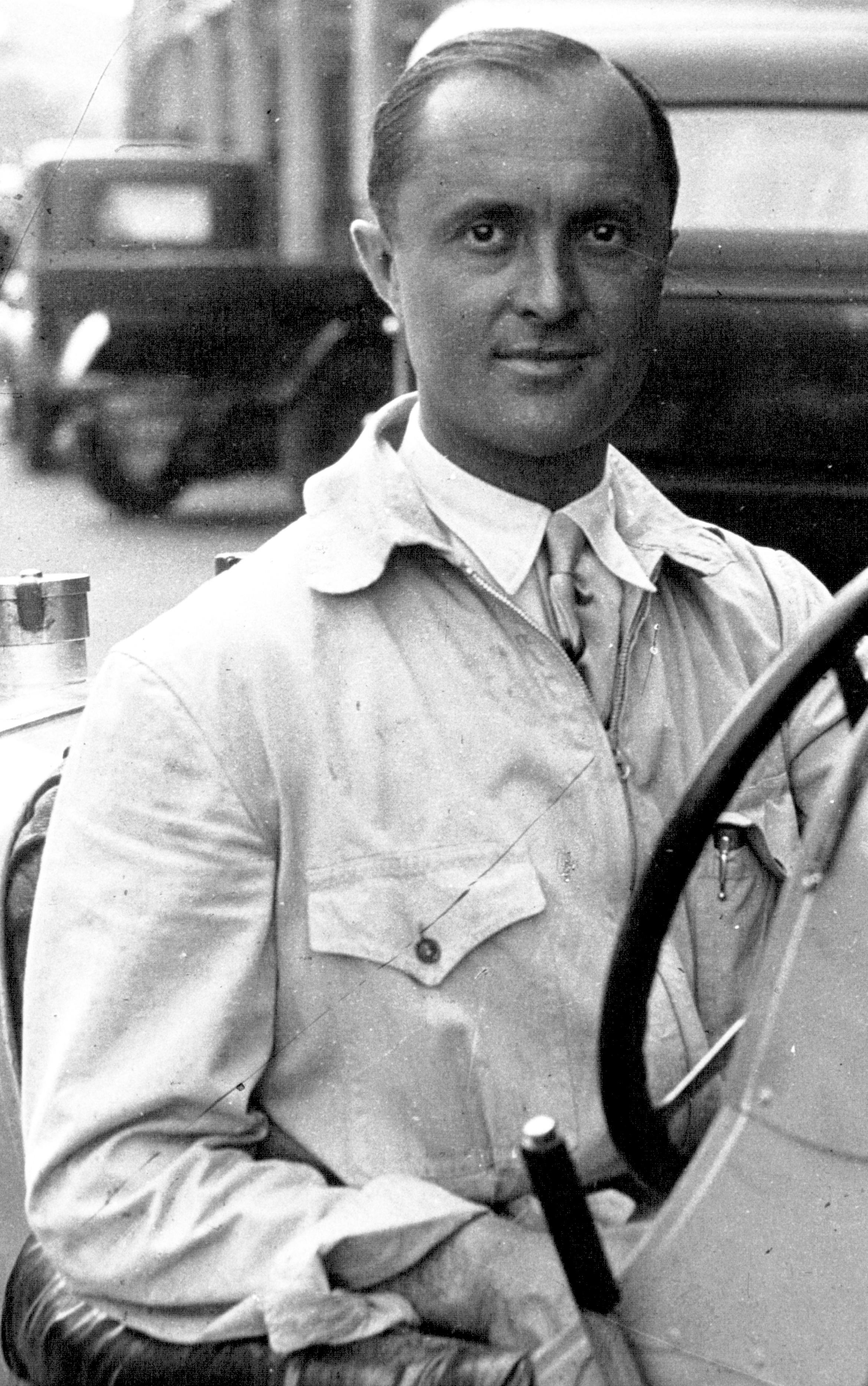 Louis Chiron at the 1931 French Grand Prix